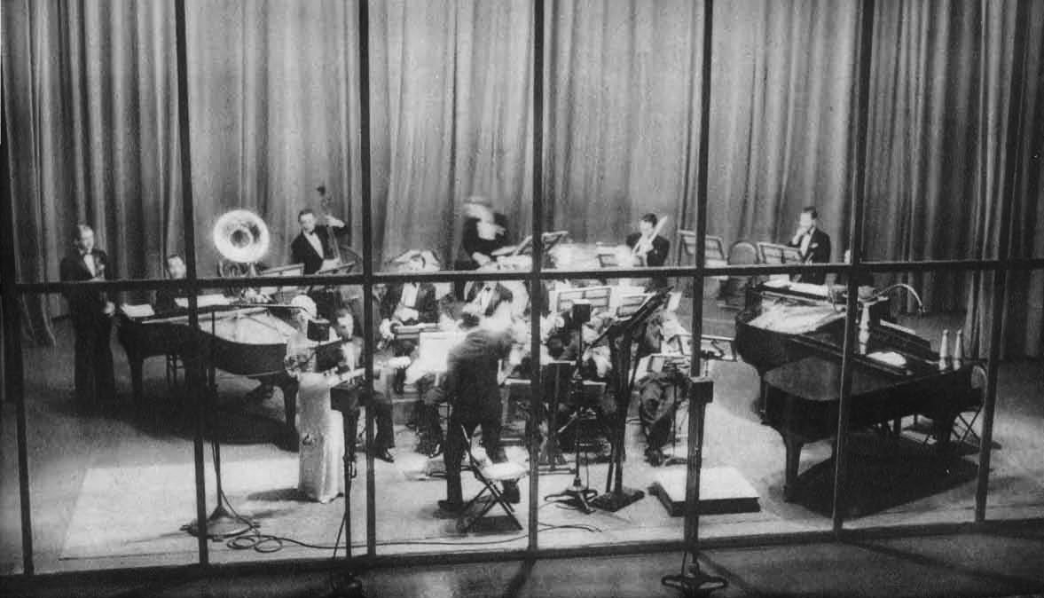 Rudy Vallée conducts his orchestra as Frances William sings on his broadcast.